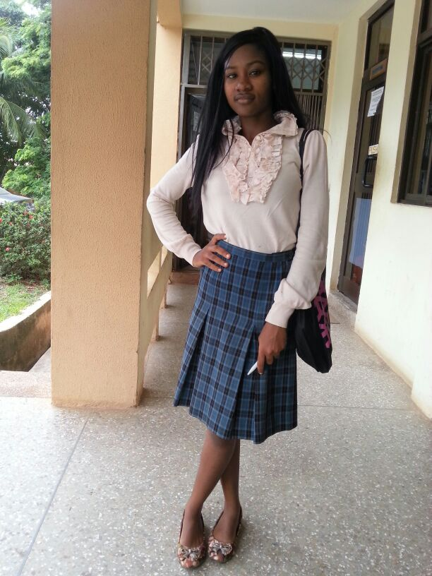 First Time